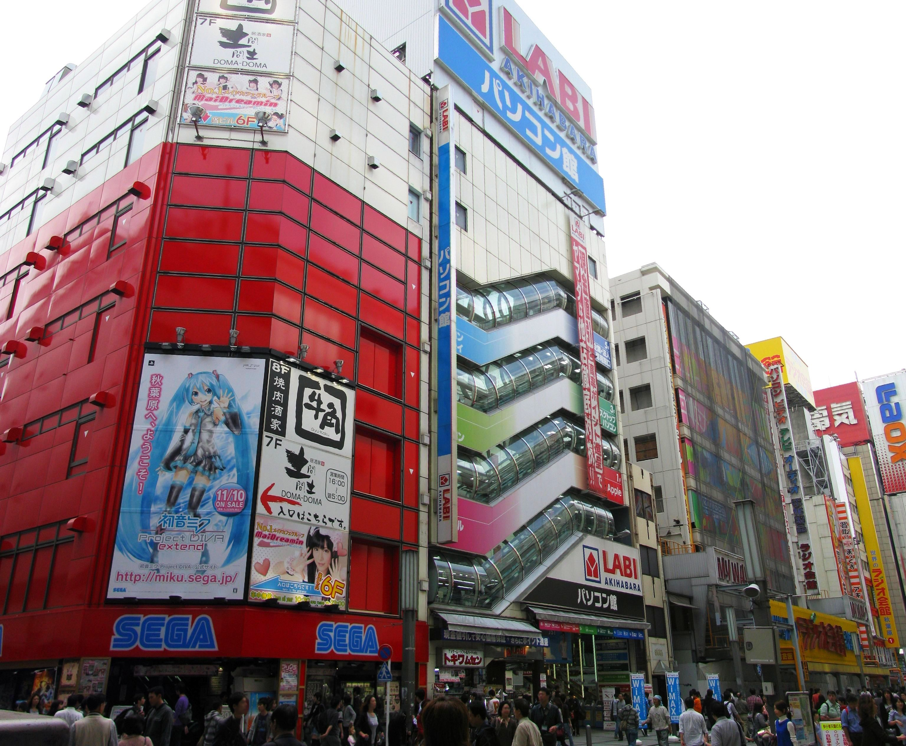 Entrance of the Akihabara. This location is in Chiyoda, Tokyo, Japan.